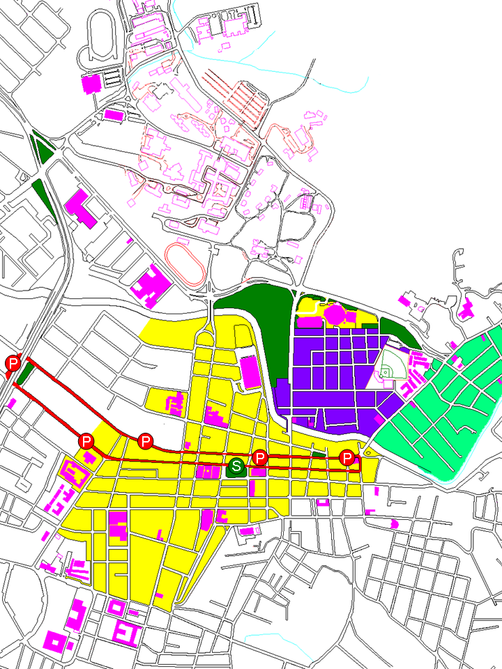 Mayagüez Integrated Transportation (TIM) - Route 1 with Stops